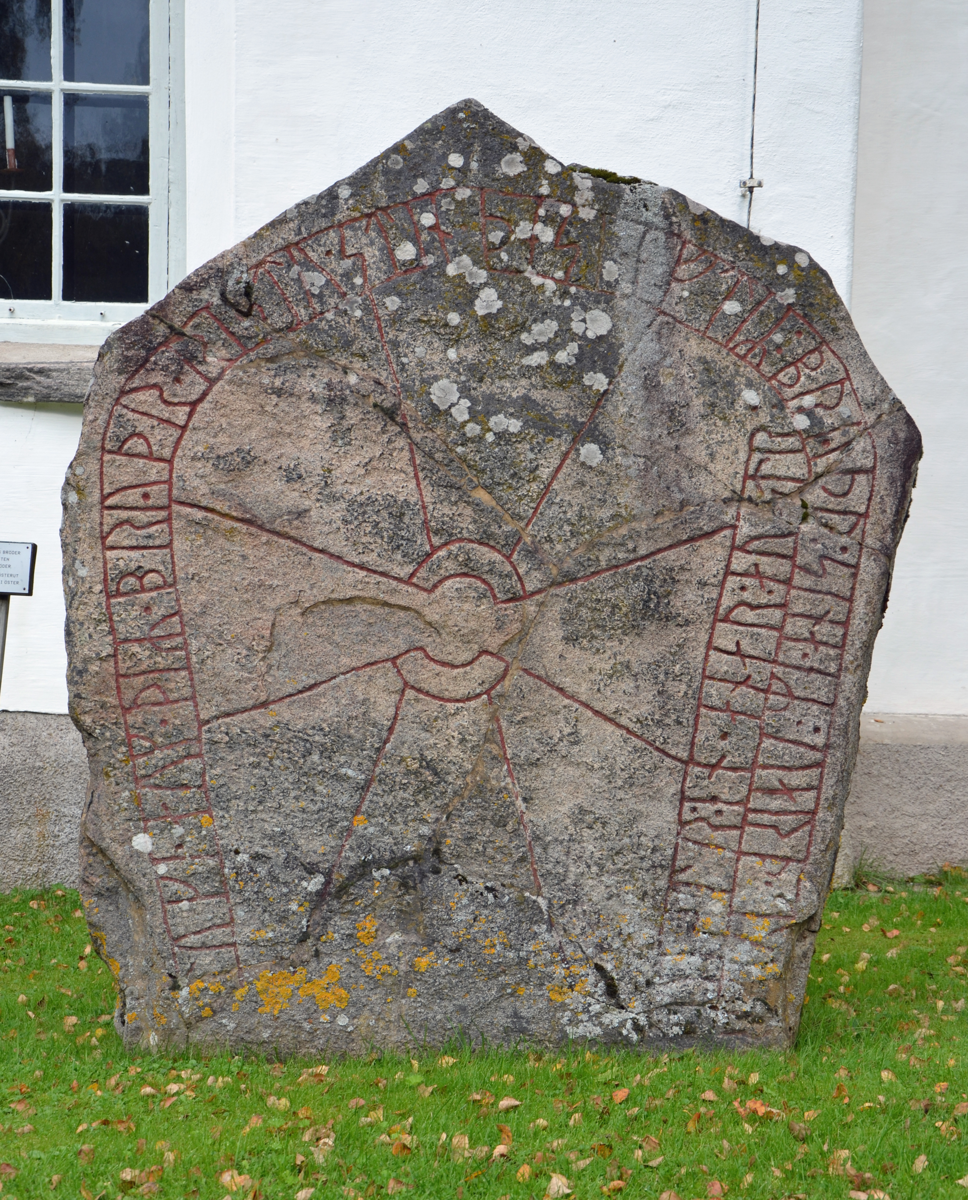 runestone; Dalum church